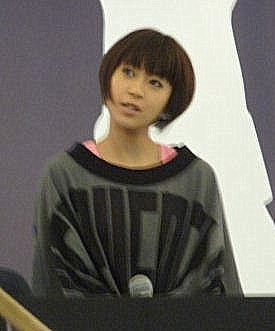 Hikaru Utada at a listening party/interview event at Sephora in New York on March 25, 2009.